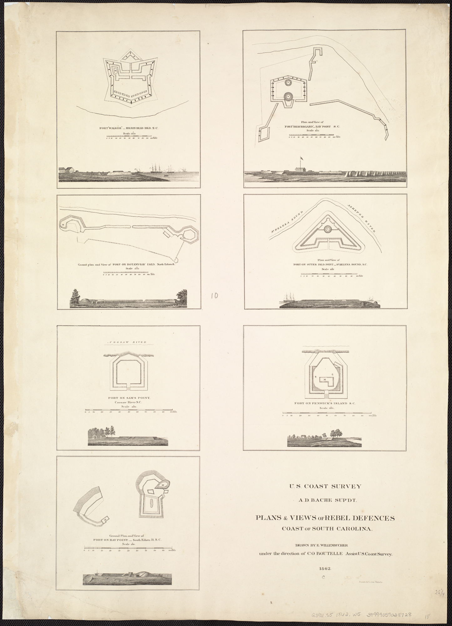 Zoom into this map at . Author: Willenbücher, Eugene Publisher: United States Coast Survey Date: 1862 Location: South Carolina Dimension: 65x45cm Scale: Scales differ Call Number: G3911.S5 1862 .W5